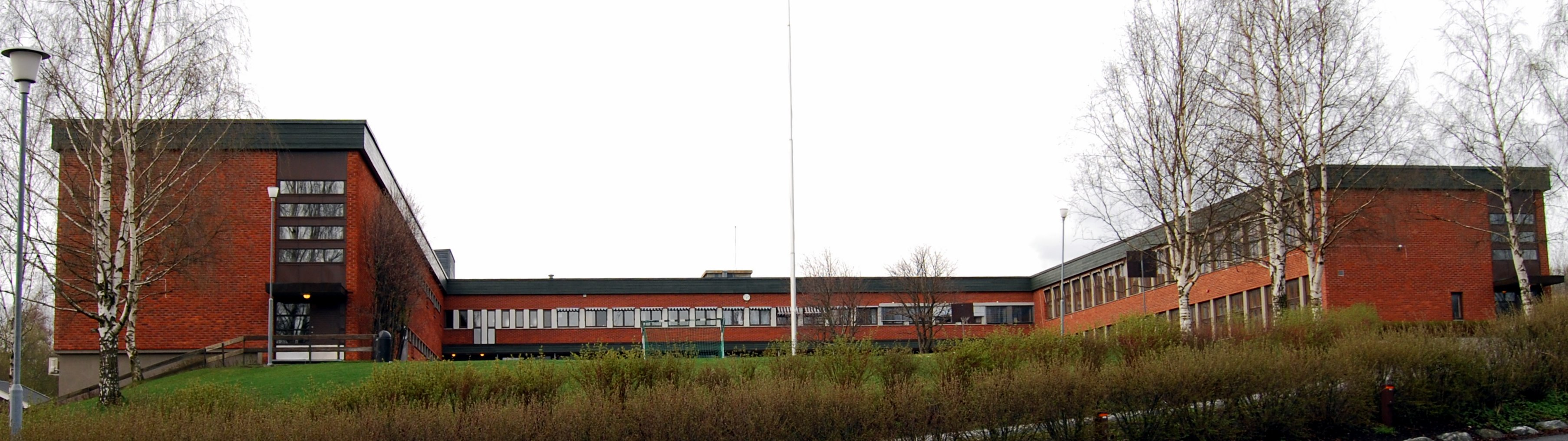 Gran lower secondary school, Gran, Oppland, Norway.